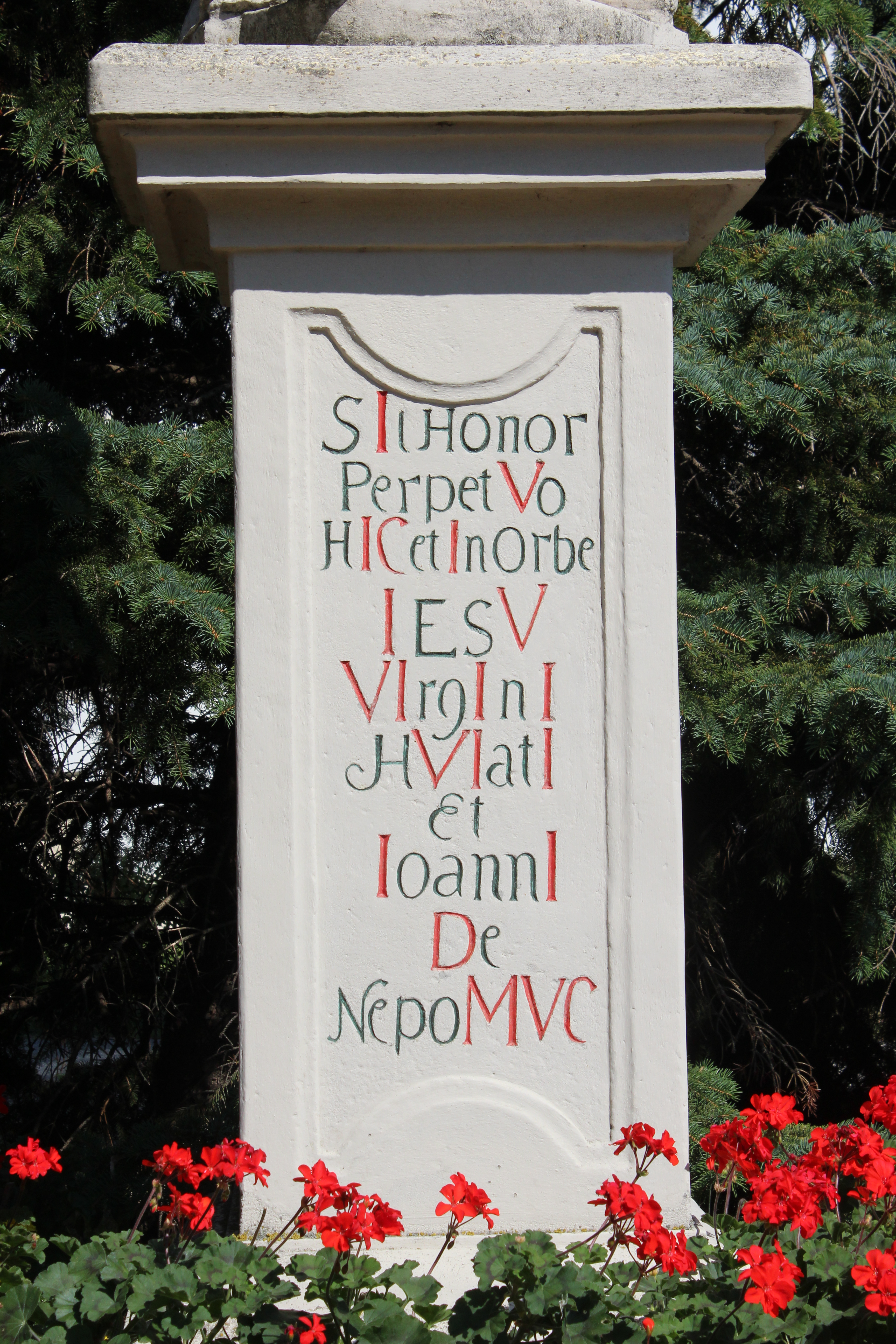 Statue of St. John of Nepomuk. (Kleinfrauenhaid, Austria).